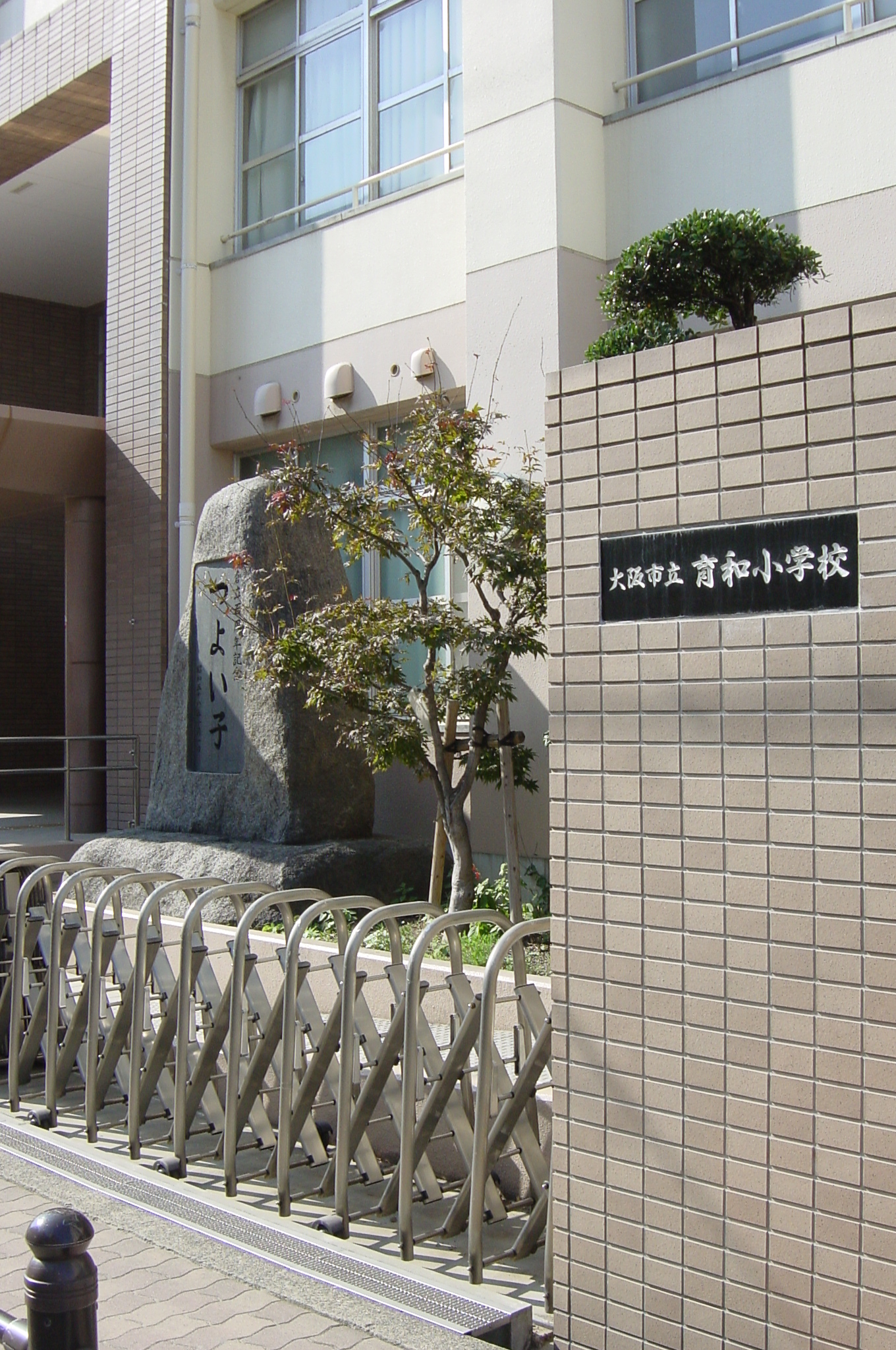 Kumata ikuwa shougakkou 1